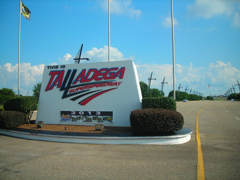 Entrance sign to Talladega Superspeedway, Talladega, Alabama, USA